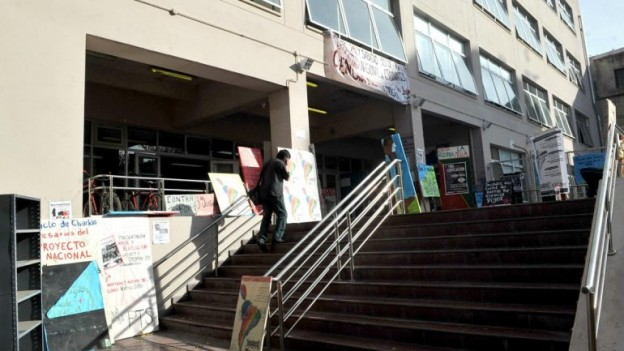 Escalinata de entrada a la facultad.